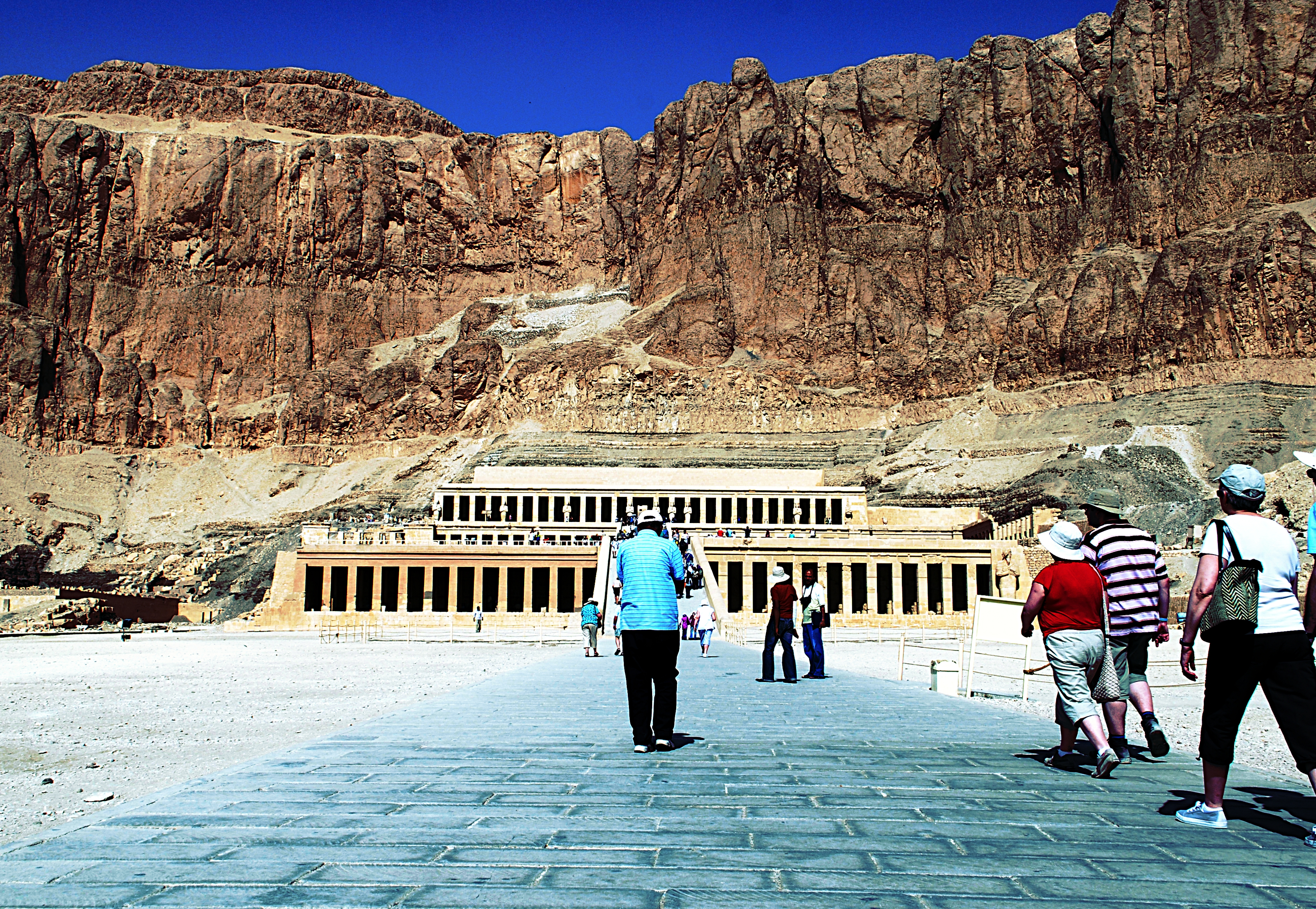 This is Deir el-Bahri (Arabic الدير البحري ad-dayr al-baḥrī), and it's exactly where terrorists from the Islamic Group and Jihad Talaat al-Fath ("Holy War of the Vanguard of the Conquest") massacred 62 people in 1997. Since then, Egypt's tourism industry went drastically down, until this day. When entering the site, it is hard not to think of this story and and focus on the historic value of the site, as the mortuary temple of Mentuhotep II. Luxor, Egypt. For more pictures of Egypt click here.